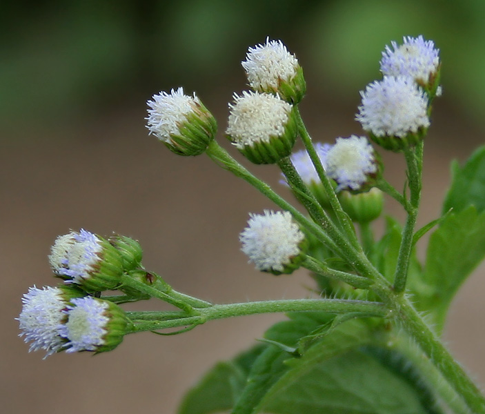 Mexican Ageratum, Yoat Weed, Billygoat-weed, Chick weed, Goatweed or Whiteweed Ageratum conyzoides in Narsapur, Medak district.